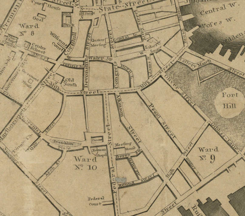 Detail of 1806 map of Boston, showing Pearl St. and vicinity